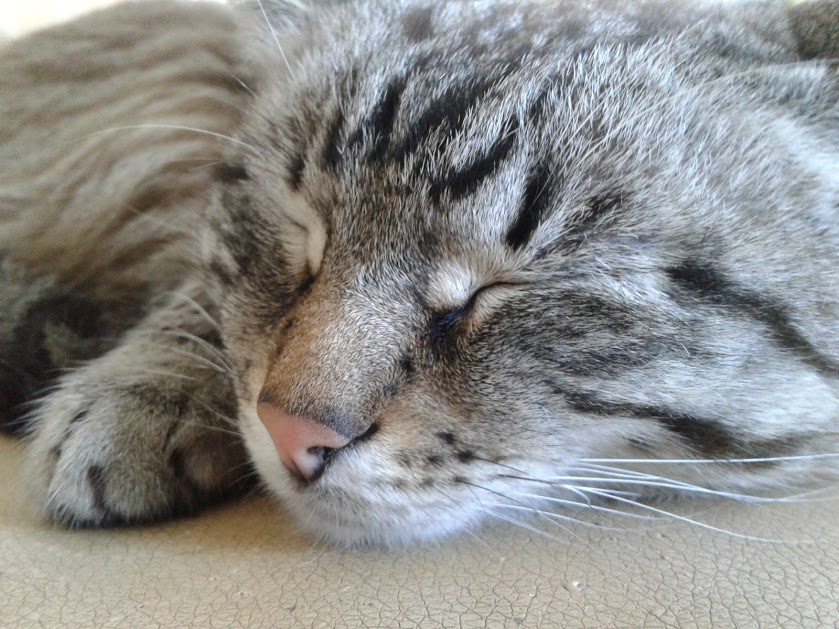 Sleeping cat